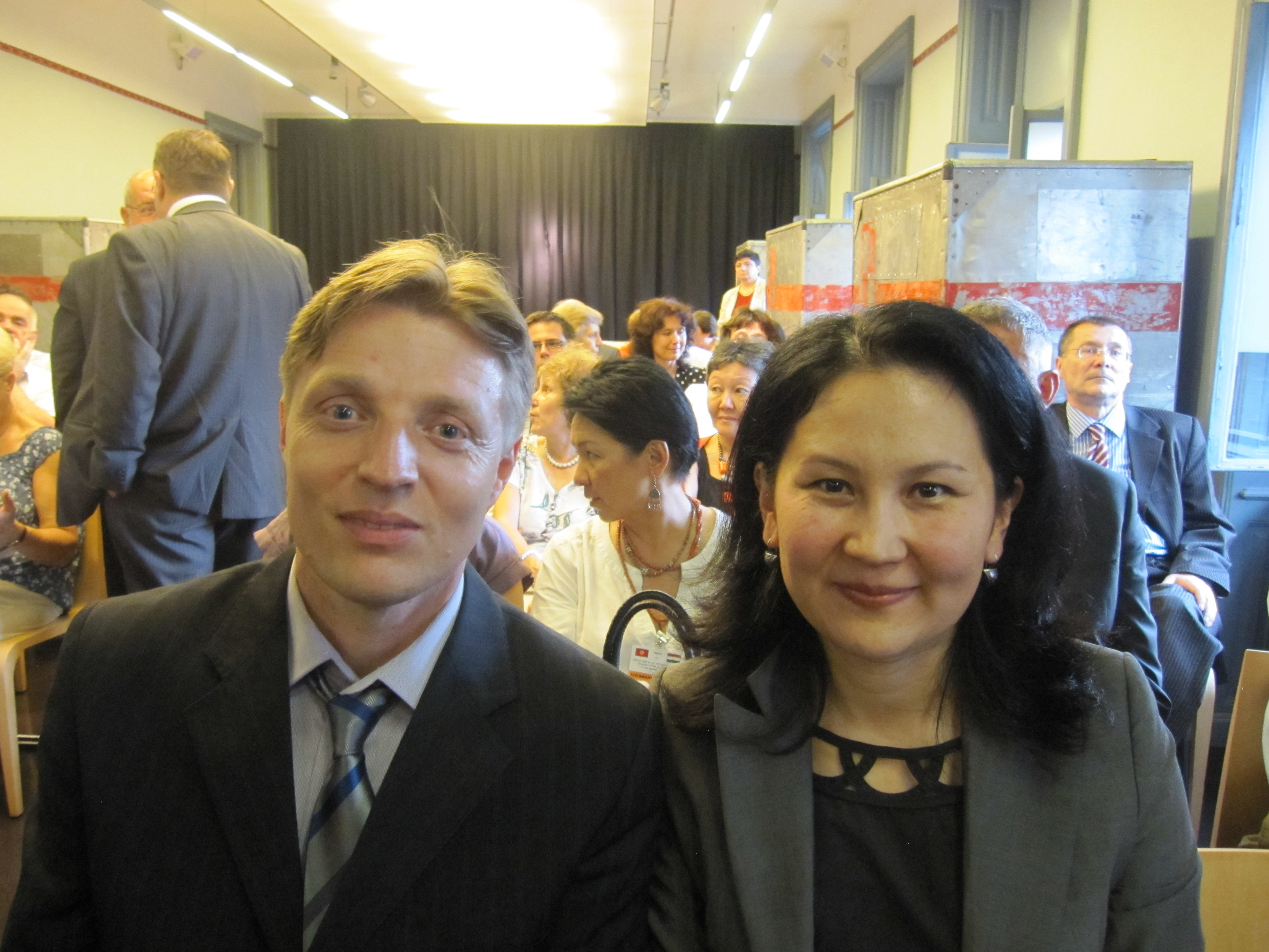 Hungarian scholar, Dr. David Kara Somfai with his wife Aida Kazybaeva-Somfai. Budapest, Hungary. 06 June 2011. Photo by T.Chorotegin.